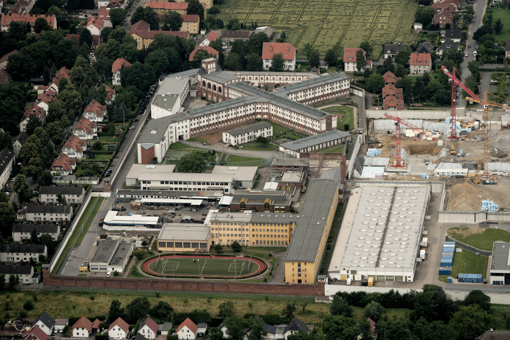 Justizvollzugsanstalt Werl (Fotoflug Sauerland Nord) The making of this document was supported by the Community-Budget of Wikimedia Germany.